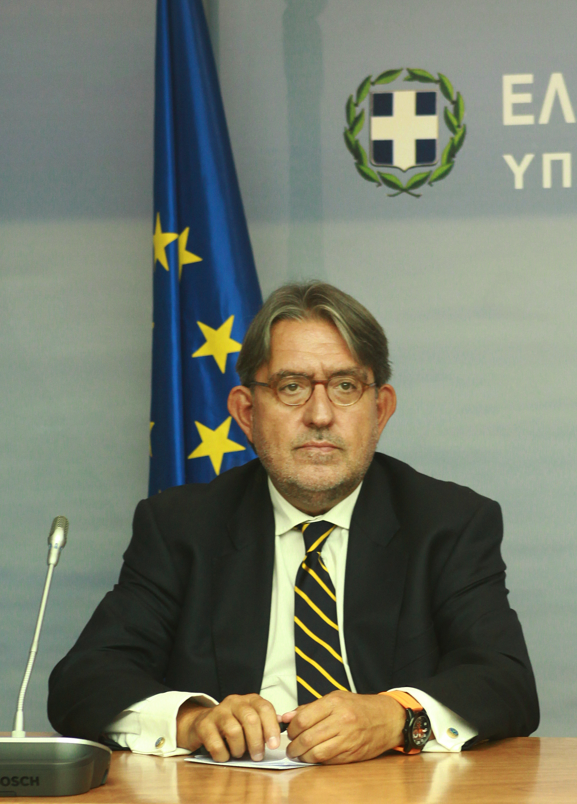 Dimitris Dollis